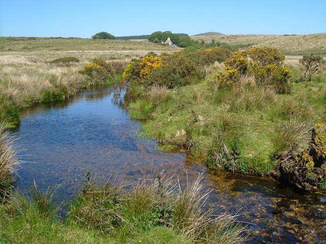 Cherry Brook and Smith Hill Farm. The Cherry Brook negotiates a sharp bend. The view is upstream to the smartly thatched farmhouse at Smith Hill Farm, close to the stream.